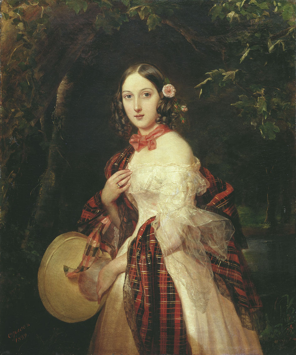 Portrait of Maria Arkadyevna Bek (1819—1889)